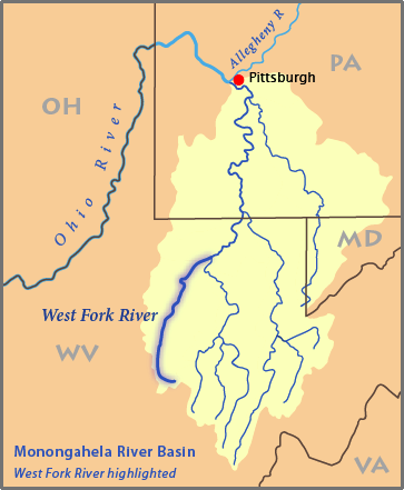 This is a map of the Monongahela River basin, with the West Fork River in West Virginia highlighted. Credits I, Pfly, made it, based on USGS data.